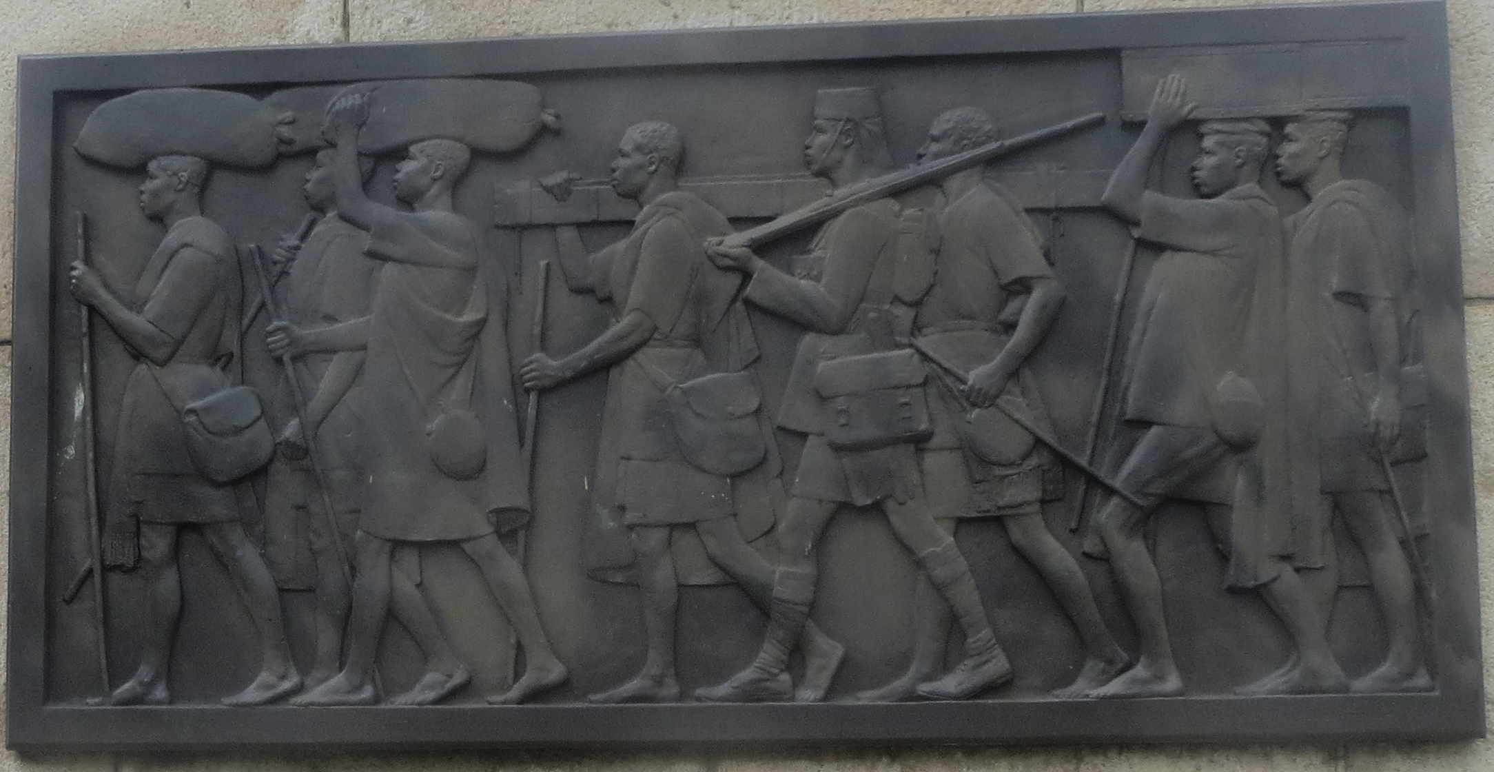 Askari monument Daressalaam, memomrial plate of Carrier Corps